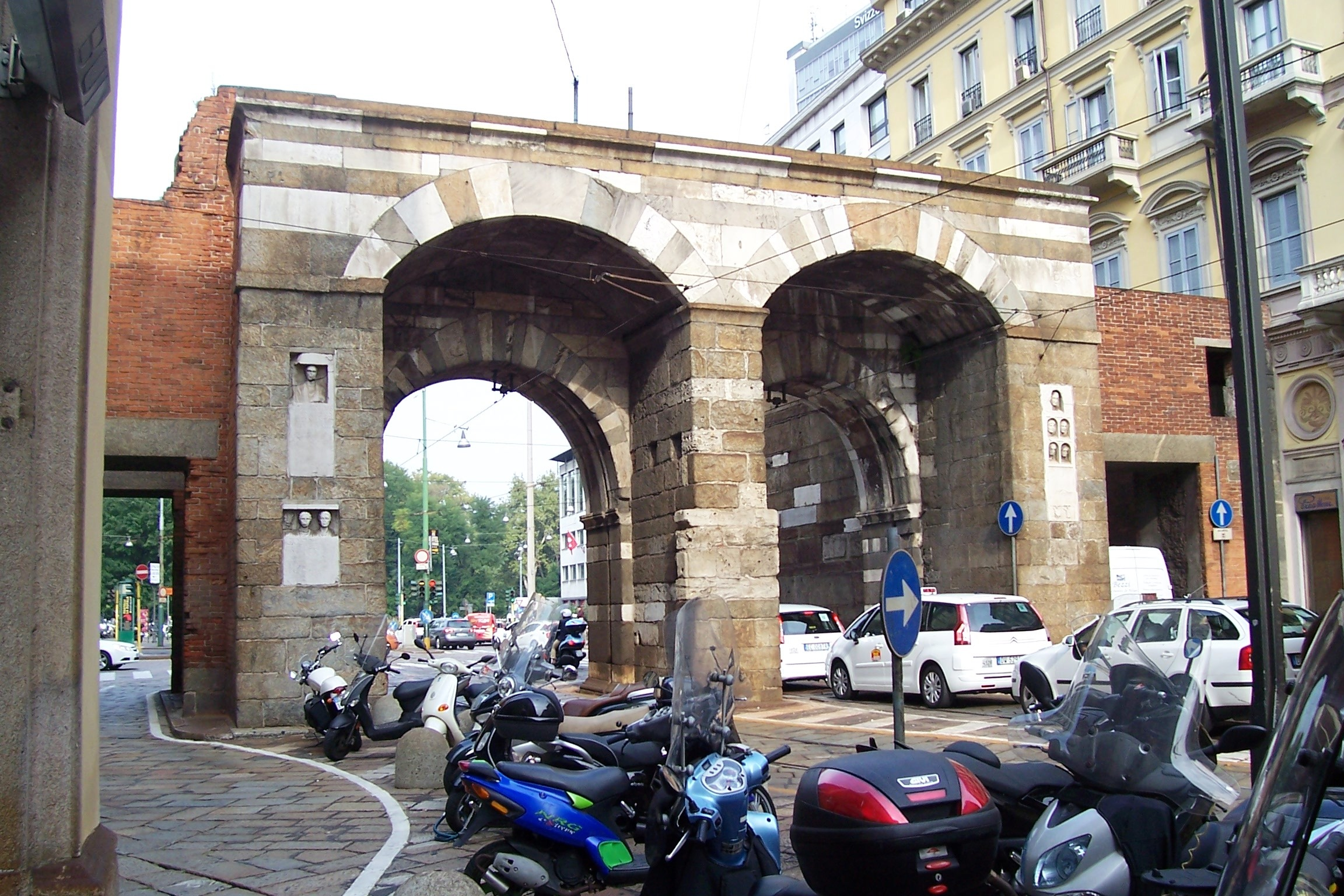 The porta Nuova (Newgates) in destroied medieval Walls (internal view)